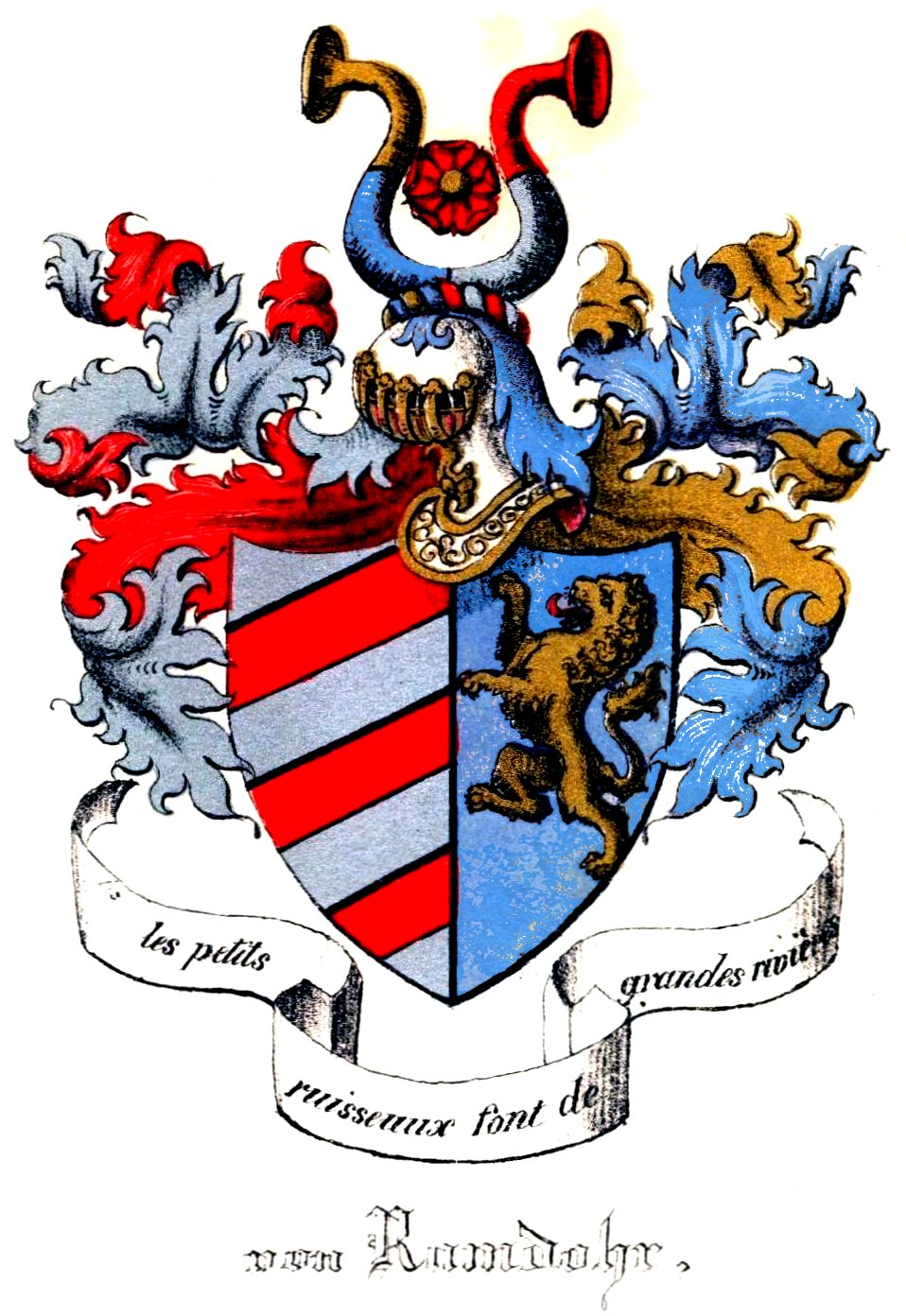 Coat of Arms Ramdohr